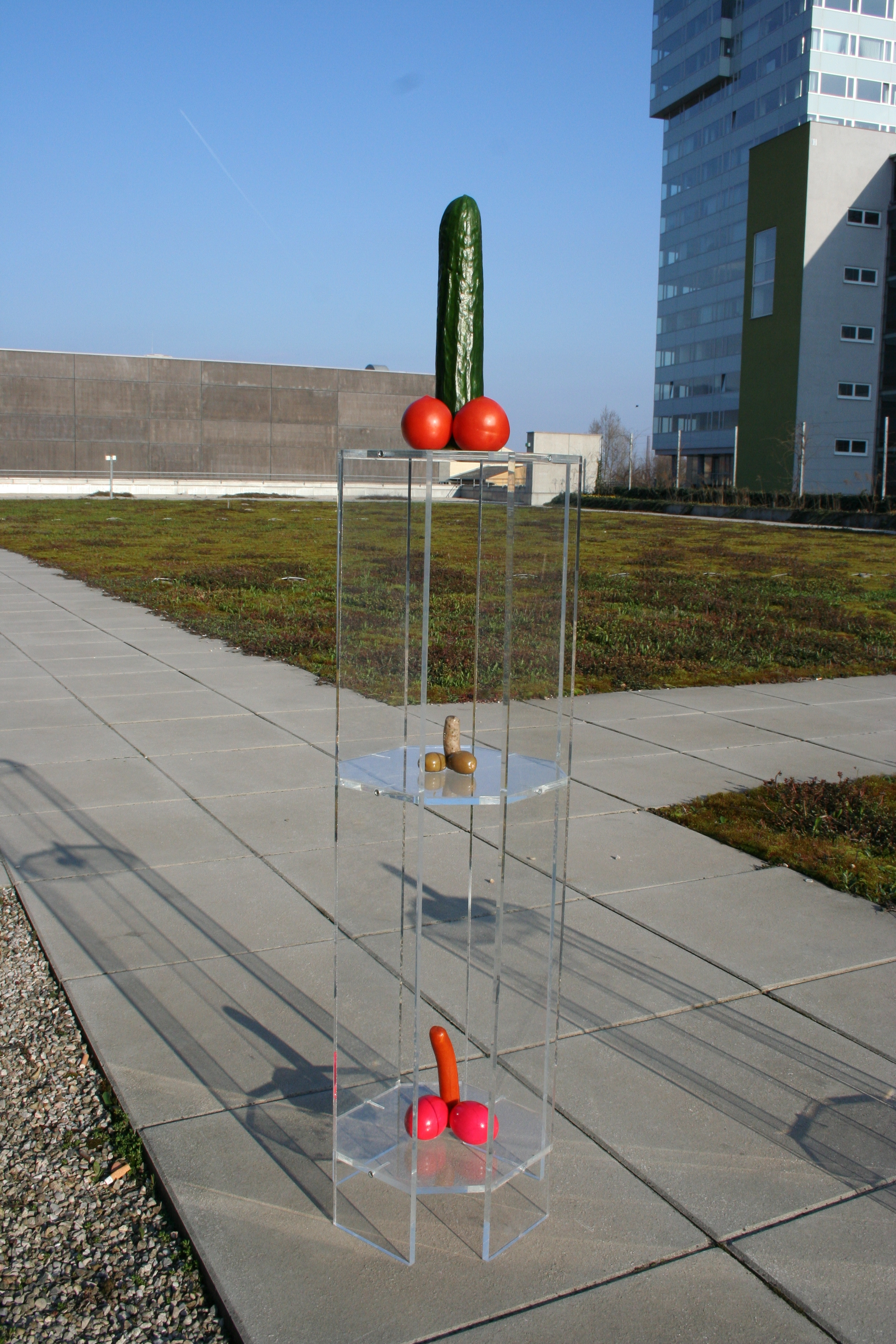 Skulpturenpark Artpark - 3 Readymades by Martina Schettina, fruit, vegetables, saucages and Acrylic basement.2009.